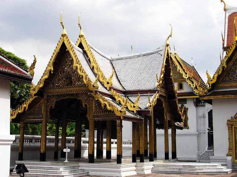 Ratcharuedee Pavillion, Grand Palace, Bangkok, Thailand